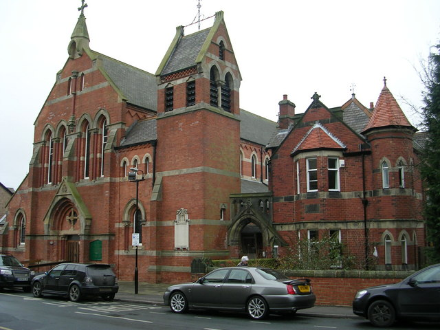 Roman Catholic church of Our Lady Immaculate and St Robert, Robert Street, Harrogate, North Yorkshire, seen from the southeast. The house on the right is the presbytery.